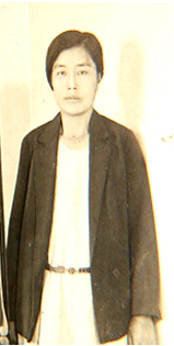 Na Hye-sok, 1935